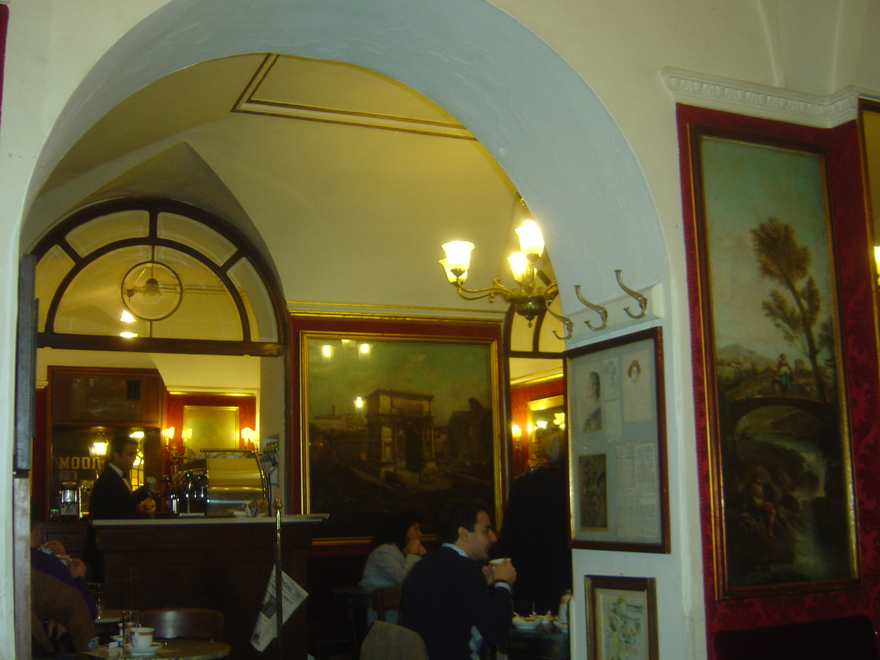 Interior of Caffe Greco in Rome